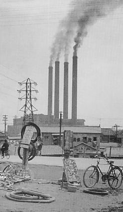 Senju Thermal Power Station(so-called "Obake Entotsu")